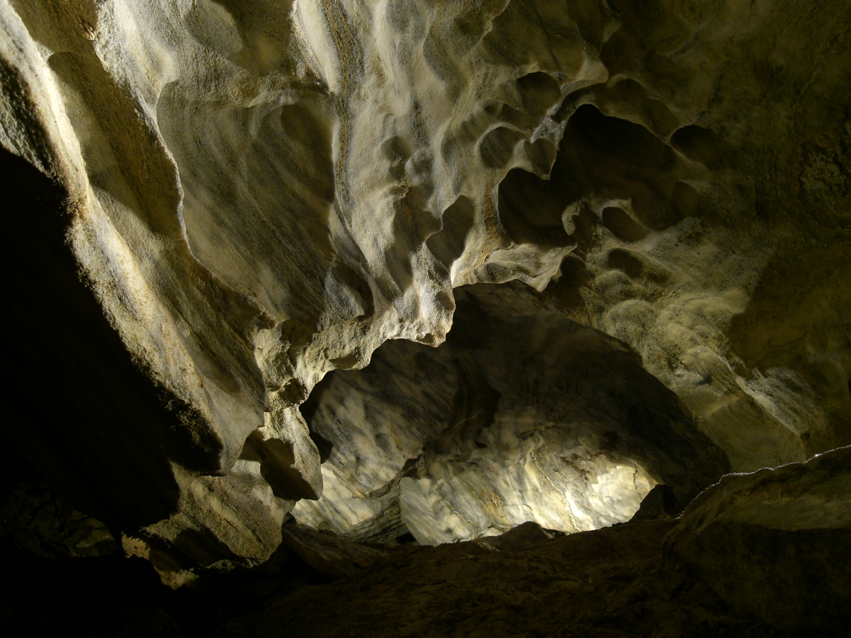 Chýnov's cave near Chýnov village, Czech Republic